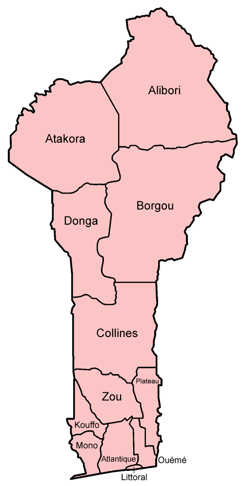 Map of the departments of Benin, named in French (local language), equal to ISO names. Made by User:Golbez.